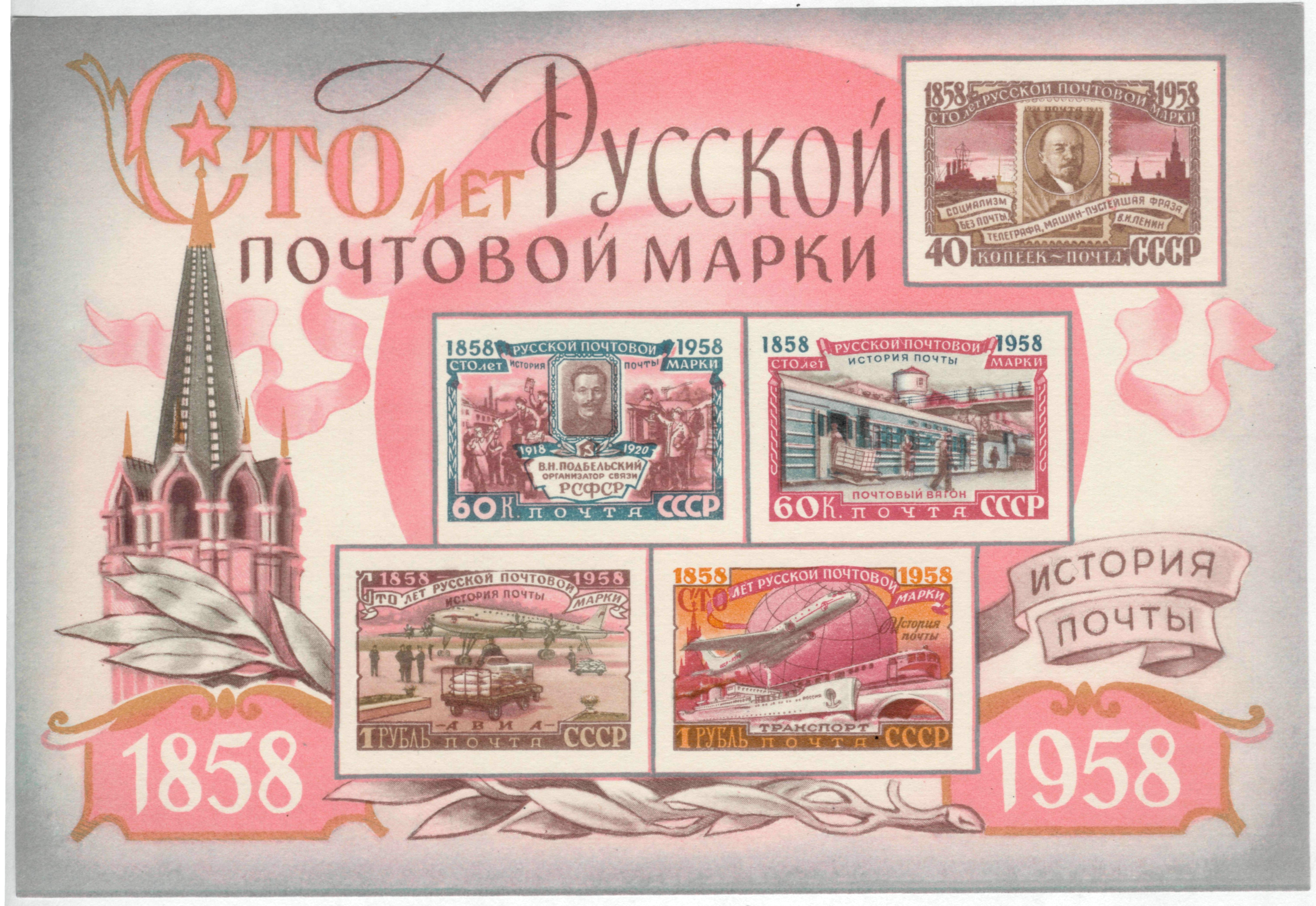 USSR miniature sheet, 1958, A Centennary of the Russian postage stamp. Mint.